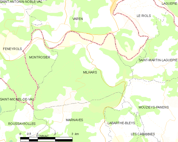 Map of French municipality Milhars